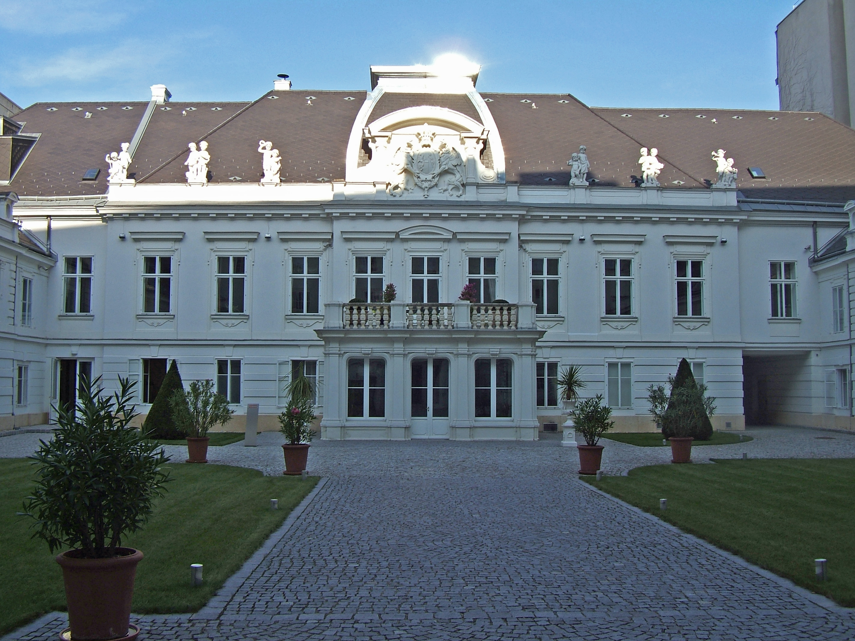 Palais archduke Carl Ludwig in Vienna 4th district Favoritenstraße 7